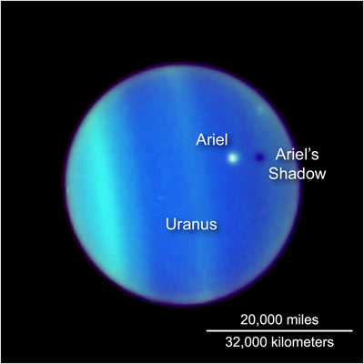 A Hubble Space Telescope image showing Ariel in transit across Uranus, taken on July 26, 2006. Due to the planet's extreme axial tilt--carried through in the tilt of its satellites's orbits--transits are only possible near the equinoxes. Taken in the near-infrared, atmospheric banding and the planet's oblateness are readily apparent. Courtesy of the Space Telescope Science Institute.